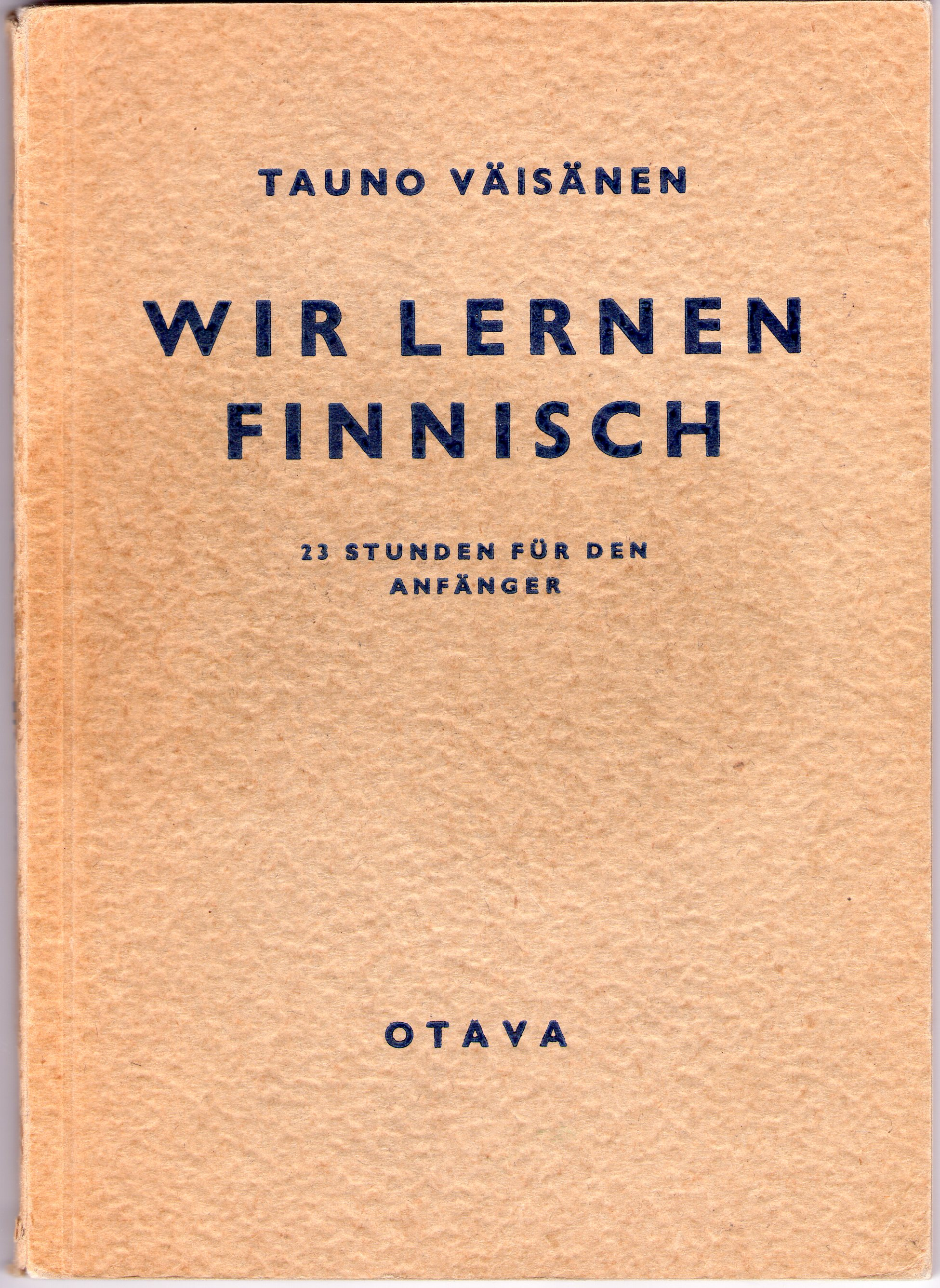 This image is the cover of the book Wir Lernen Finnisch:the Finnish language dictionary german forses 1944 by Tauno Väisänen